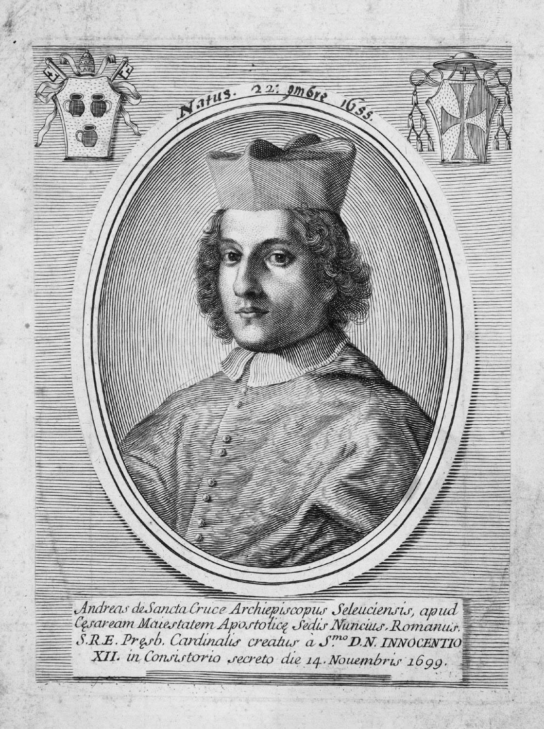 Andrea Santa Croce engraving 19.4 x 14.4 cm early 18th century